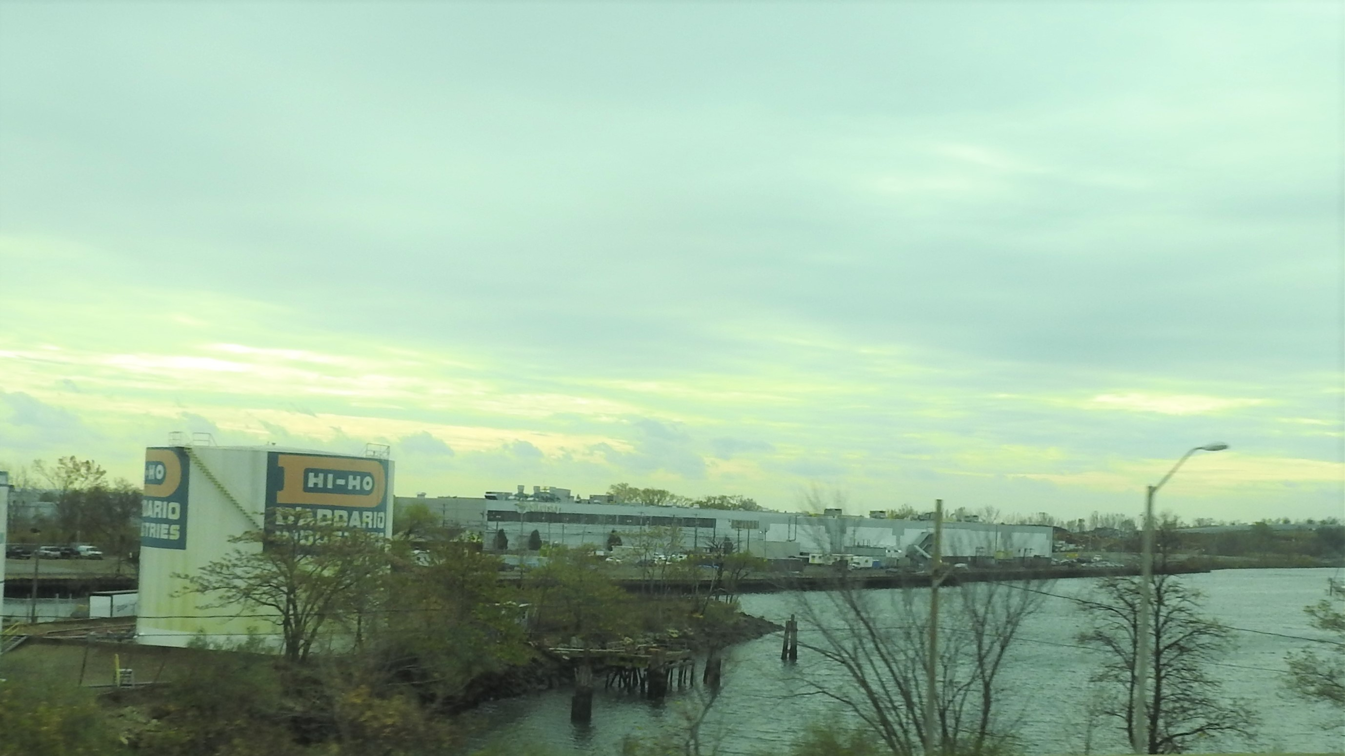 Looking south from highway on a cloudy morning